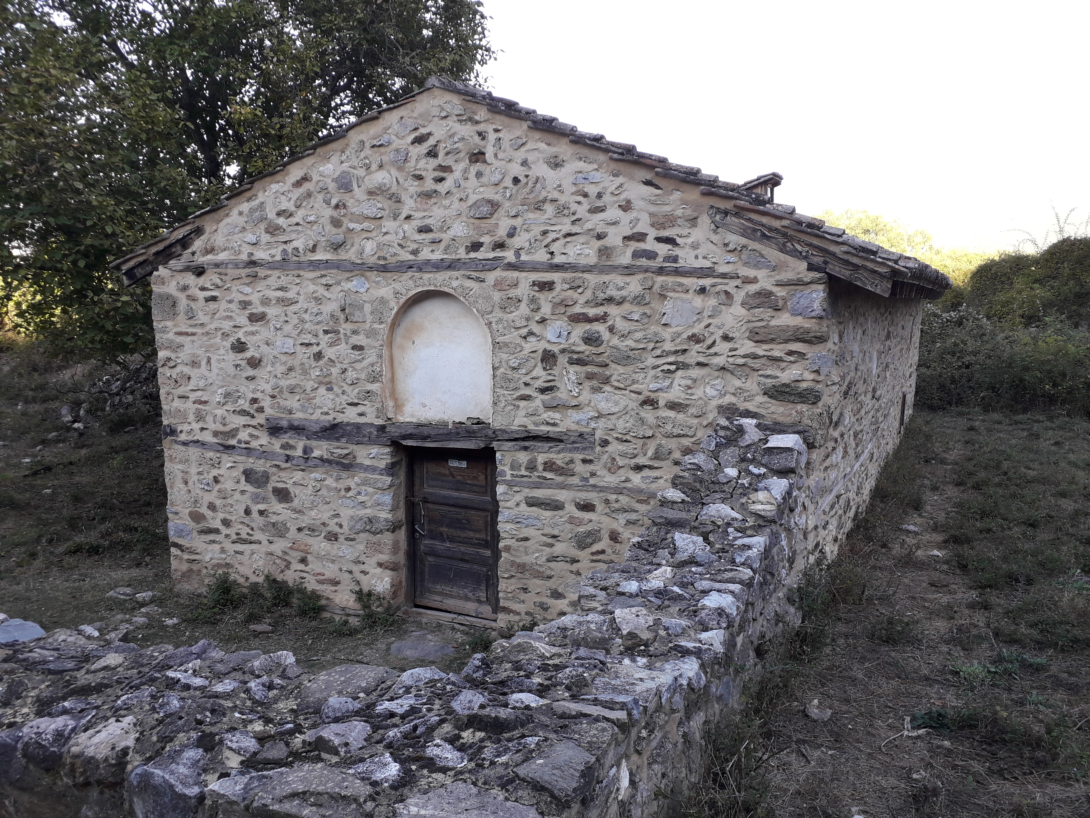 Panagia Porphira, Ahil